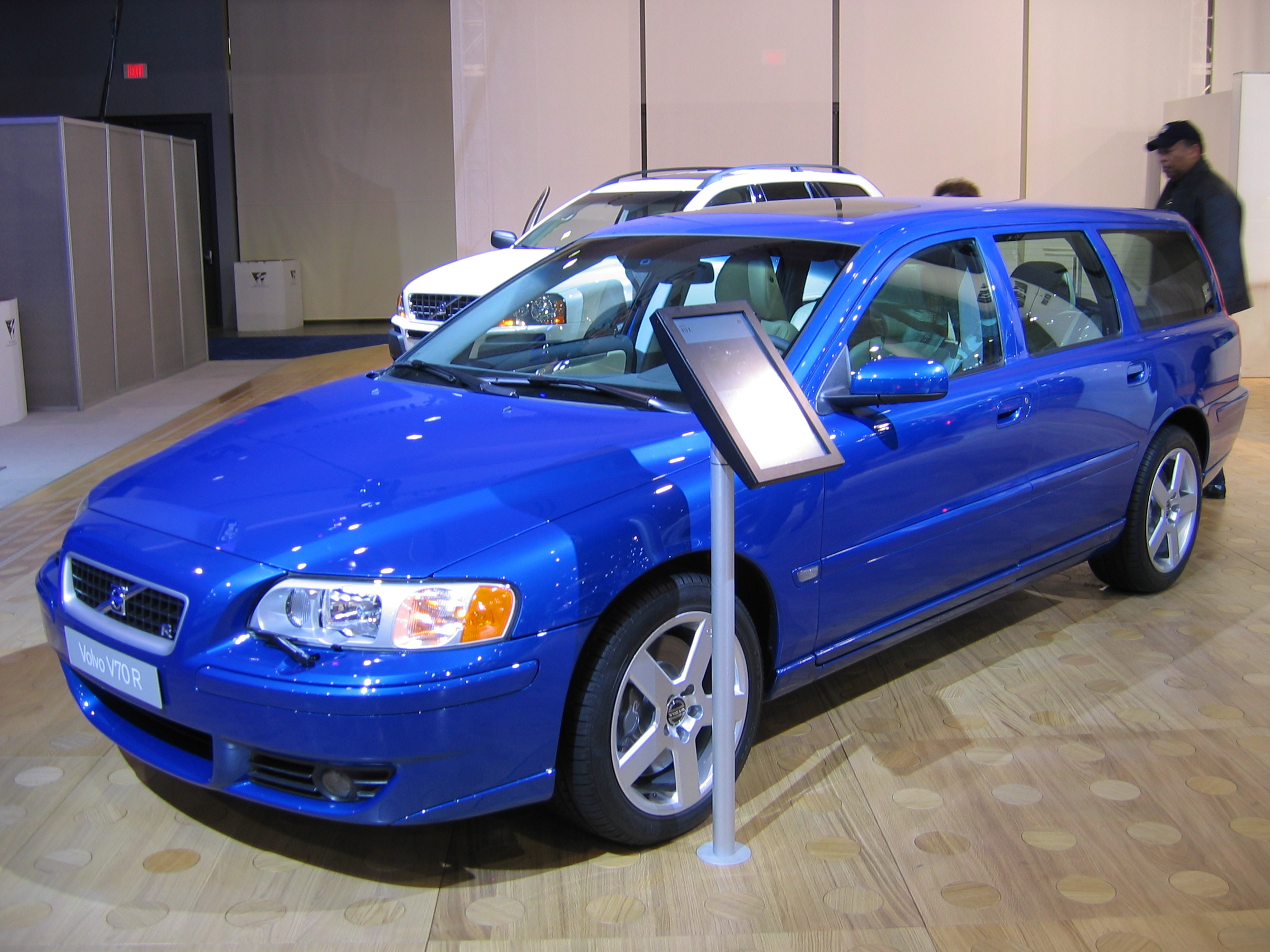 Volvo V70R